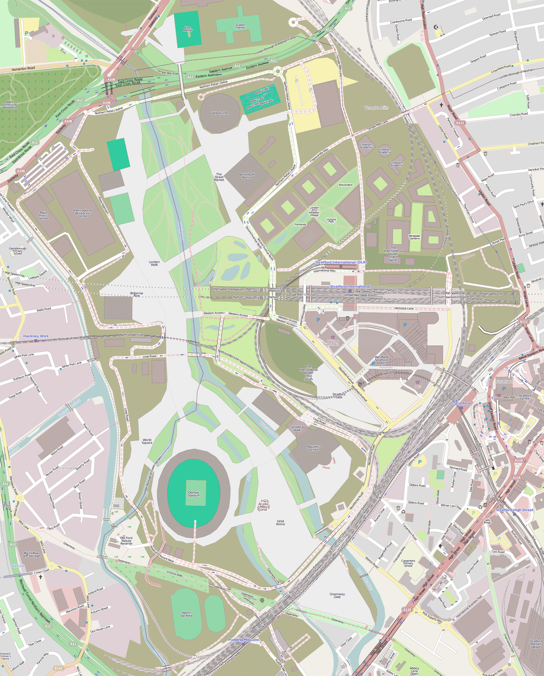 Map of Queen Elizabeth Olympic Park, or Olympic Park, London. Located in Stratford, London Borough of Newham, eastern London U.K.